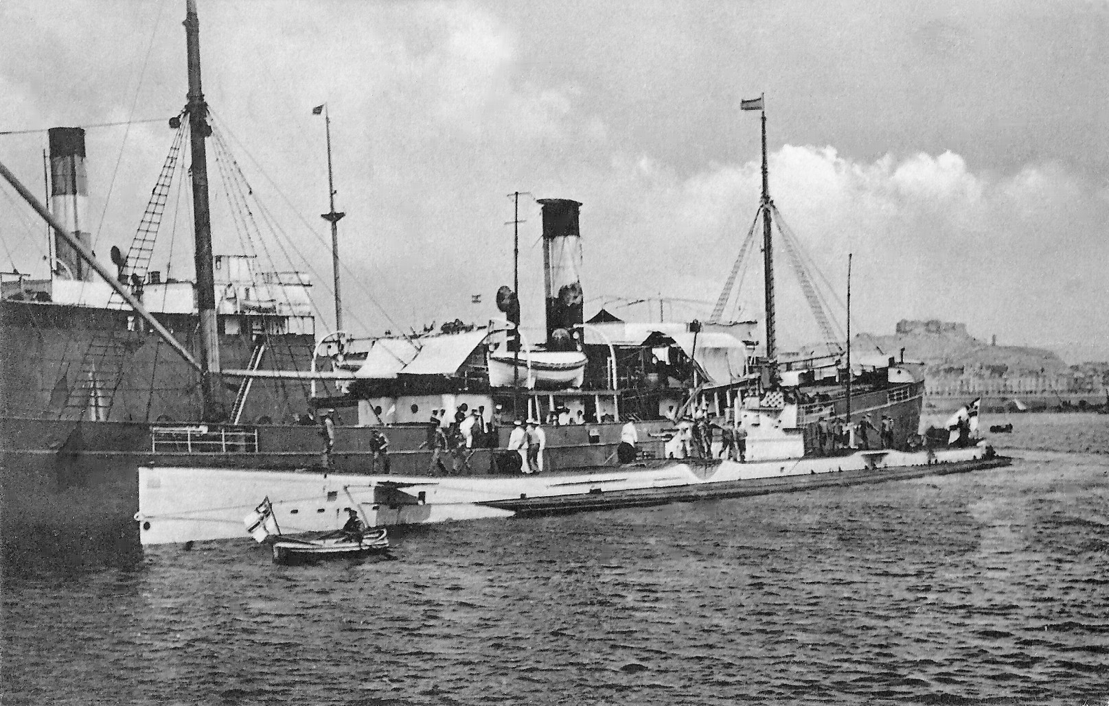 The German submarine SM U-35 rafted up on the merchant ship Roma, also German, in the port of Cartagena (Spain). The visit of the belligerent ship on June 21, 1916 endangered Spanish neutrality in World War I.